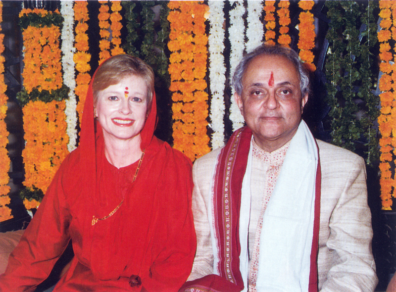 Helen Armstrong (violinist) and Ajit Hutheesing (investment manager) at their wedding in India, 1996. Copyright: Debbie Howser.